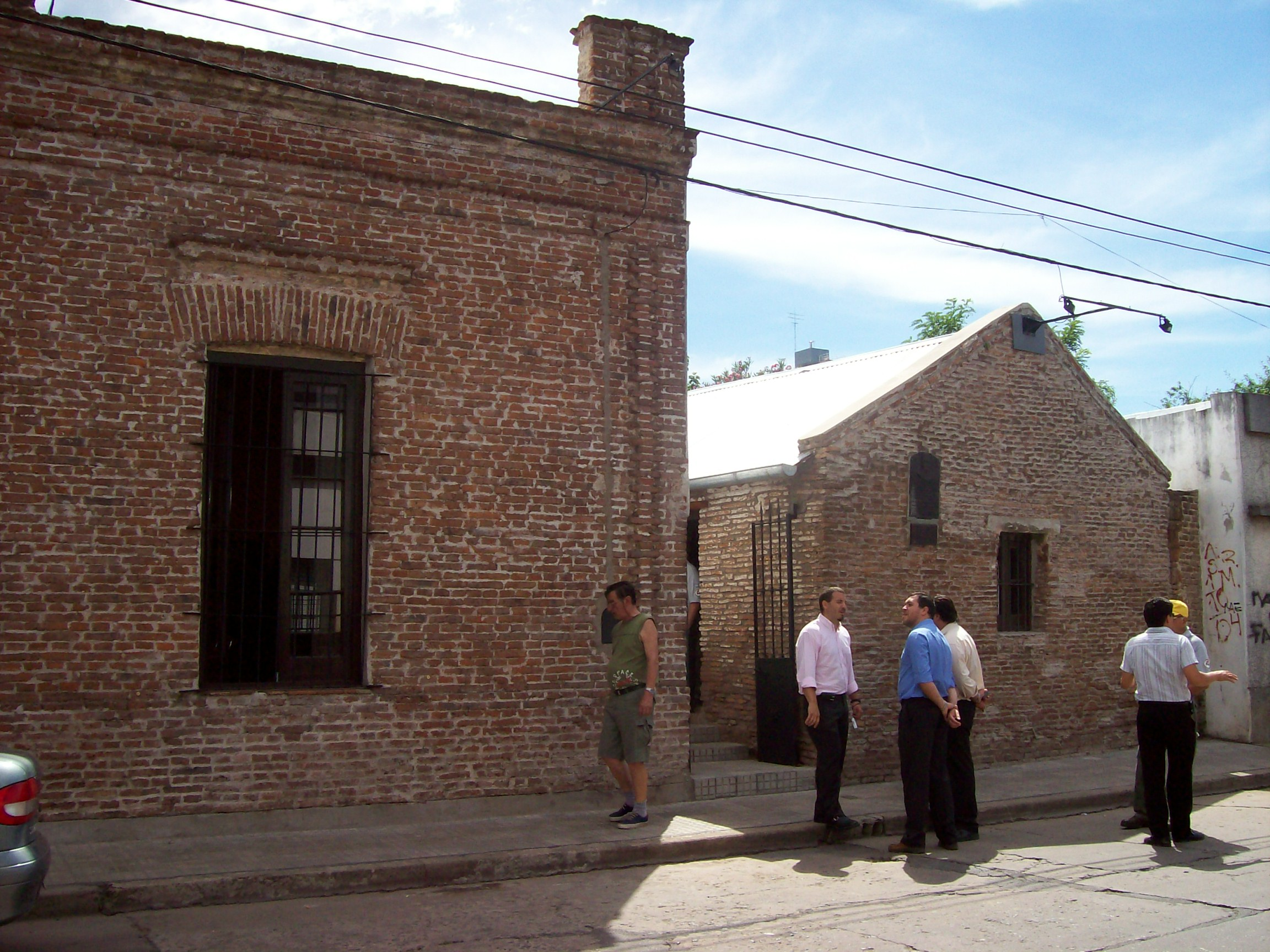 Front (and back of the house, in its original shape) of the historical house of Coronel José Félix Bogado in San Nicolás, Buenos Aires, Argentina.